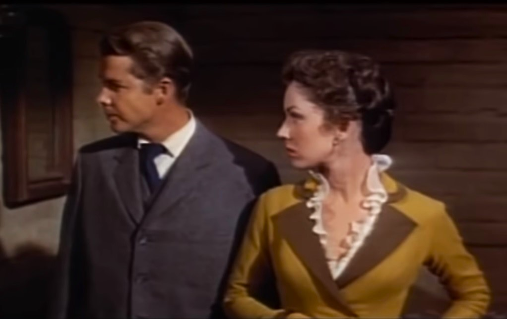 Audie Murphy & Pat Crowley in Walk the Proud Land - trailer (cropped screenshot)